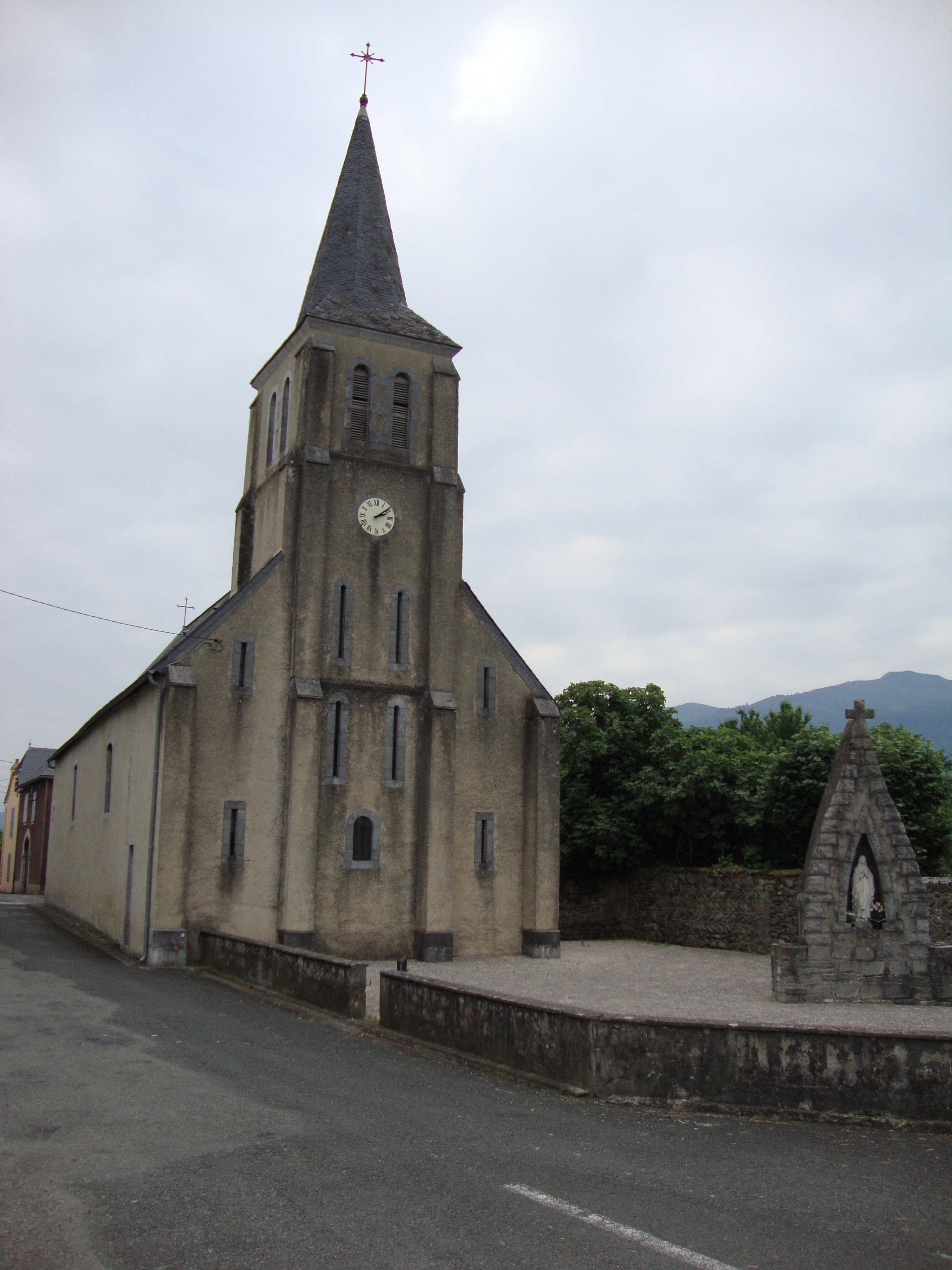 Arros d'Oloron (Asasp-Arros, Pyr-Atl, Fr) church